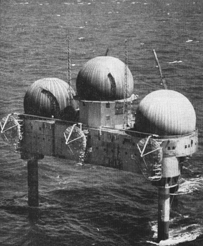 The U.S. Air Force North American Air Defense Command "Texas Tower 2" radar station in 1956. Note the tropospheric scatter dish antennae on the edge of the platform.